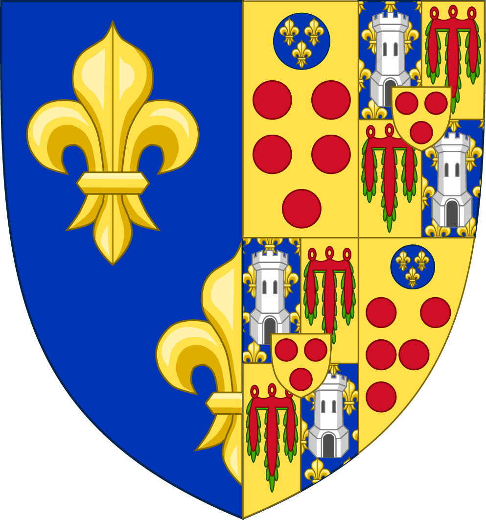 Arms of the queen Catherine de' Medici, wife of Henry II of France. To improve if necessary.